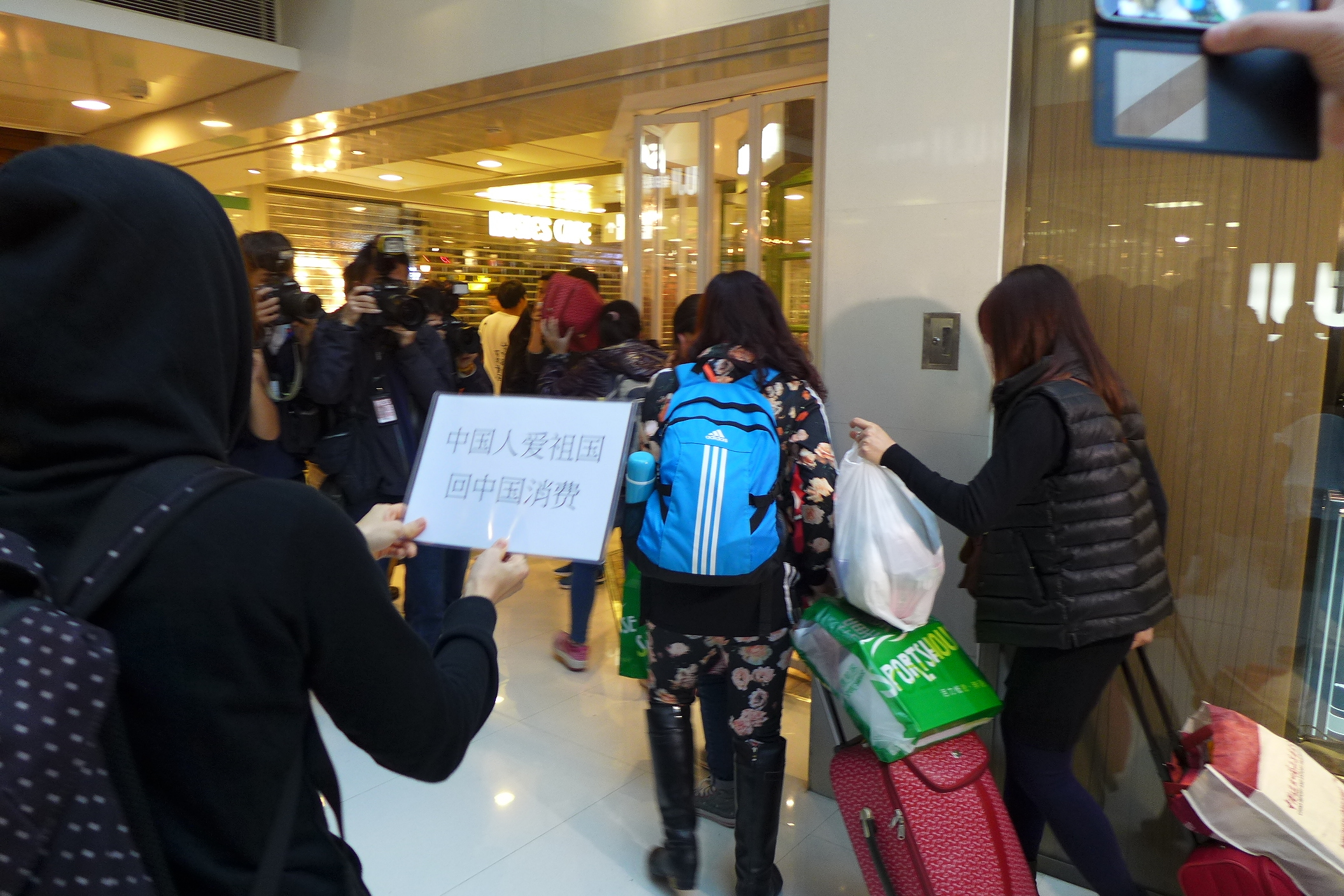 New Town Plaza Phase 3 mainlanders